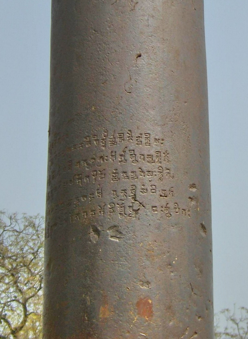 The iron pillar in the Qutb complex near Delhi, India.